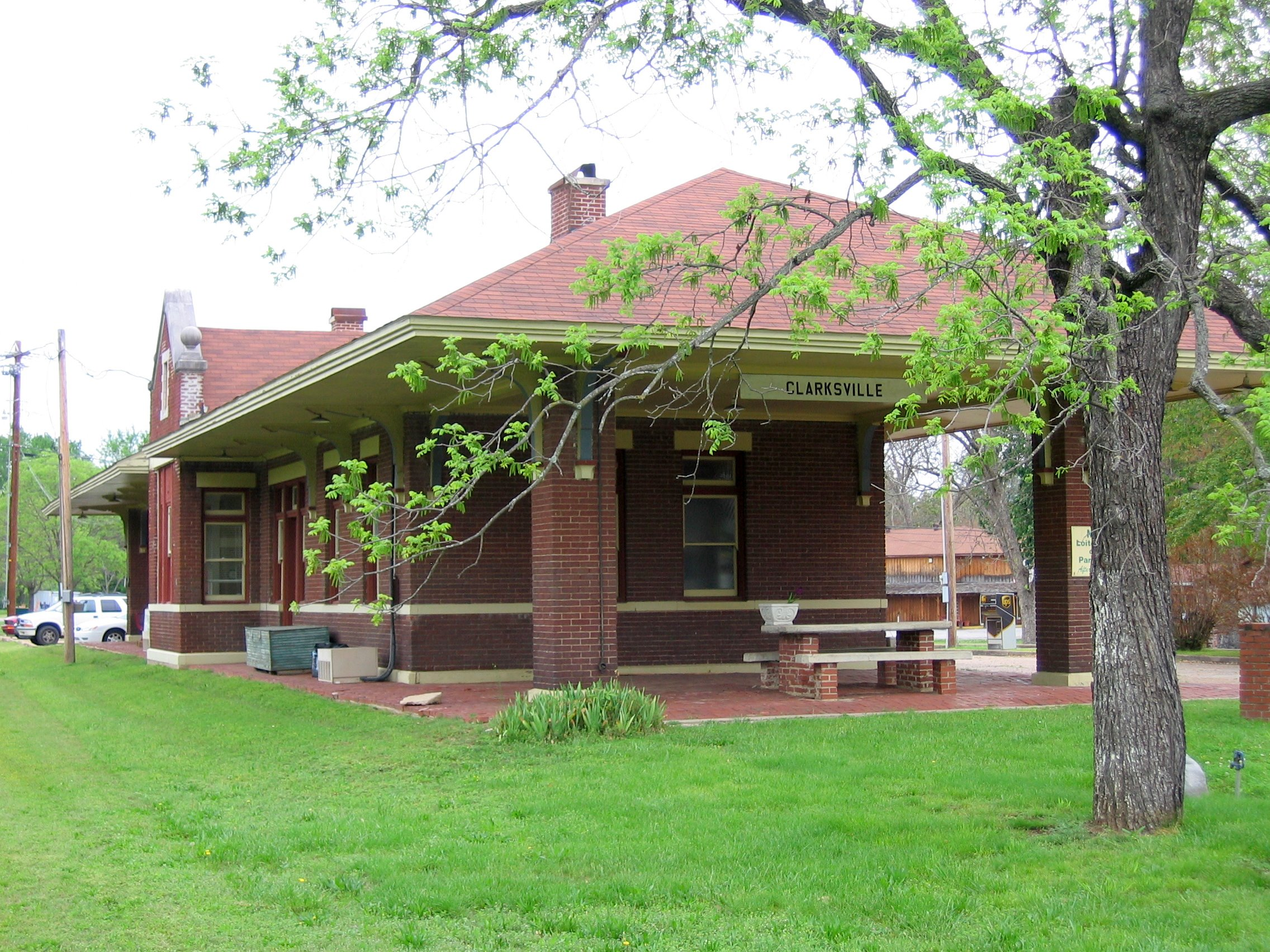 Old Train station in Clarksville, Arkansas, today used by the local Chamber of Commerce.